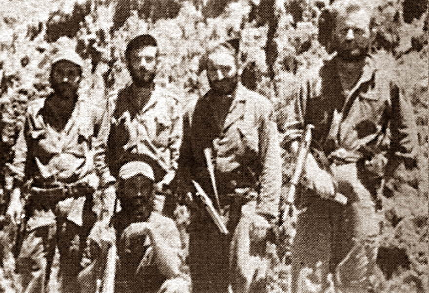 Second National Front of Escambray guerrillas in 1958. (L to R) Nene Français, Eloy Gutiérrez Menoyo, José García, Henry Fuerte, William Morgan